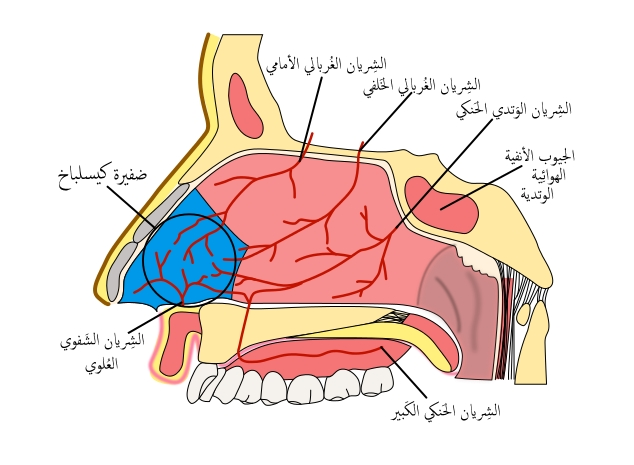 This graphic shows a cross section through the human skull and represents the kieselbachi's plexus. The nasal septum (lat. Nasal septum) is marked with blue color. Furthermore, the following tributaries of the kiesselbach's plexus are named and labeled: Anterior ethmoid artery Ethmoid artery Perior Major palatine artery sphenopalatine artery and the sphenoid sinus